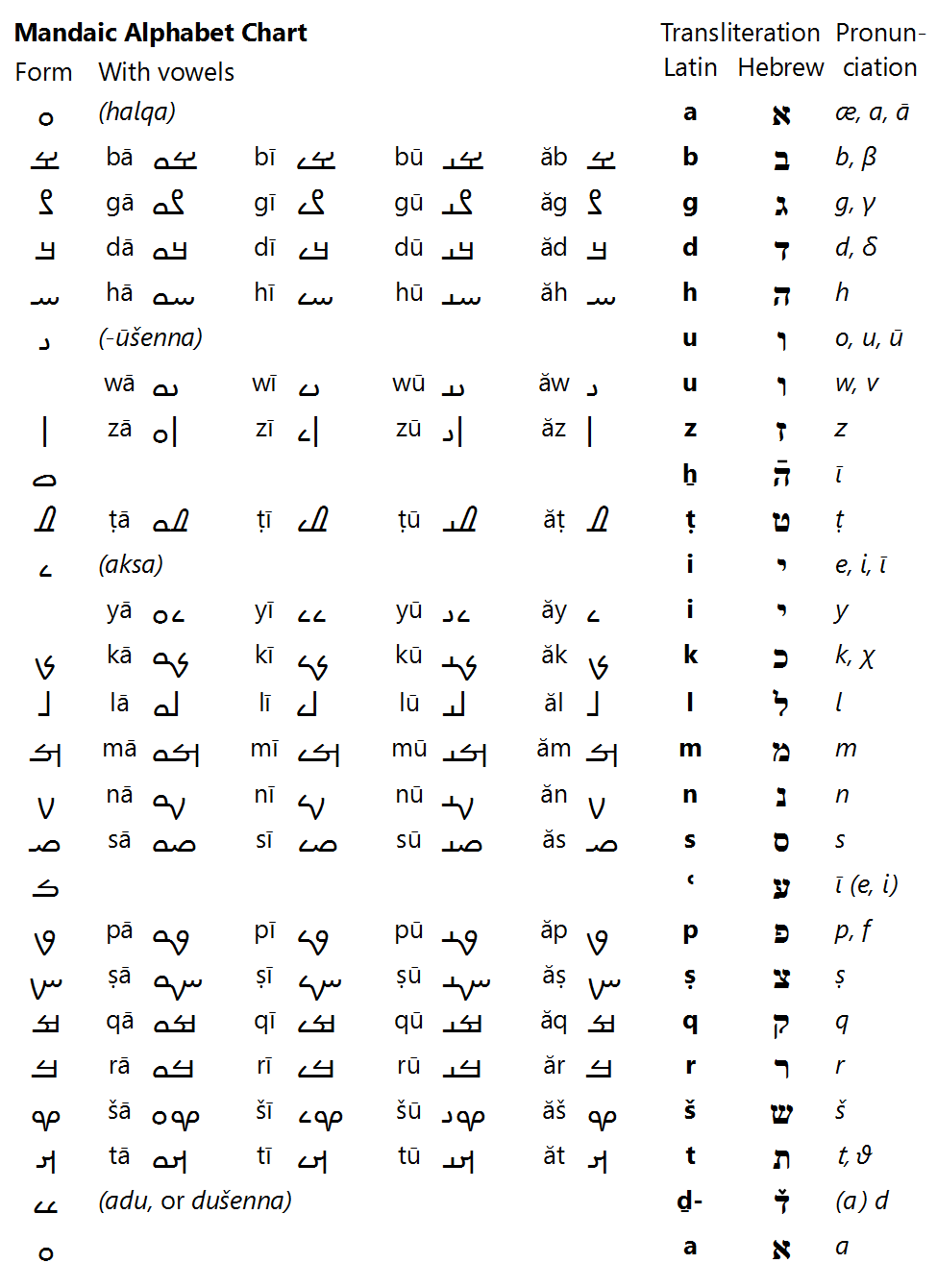 Recreation of the Mandaic alphabet chart from Rudolf Macúch's Handbook of Classical and Modern Mandaic (1965)